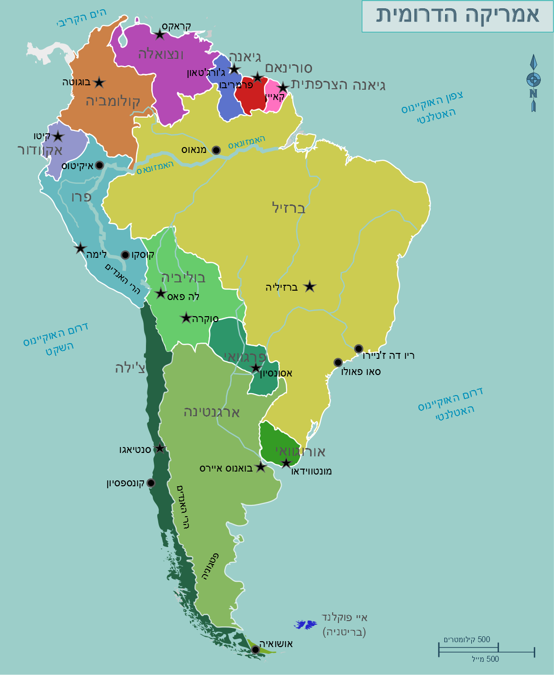 Map of South America for use on Wikivoyage, Hebrew version